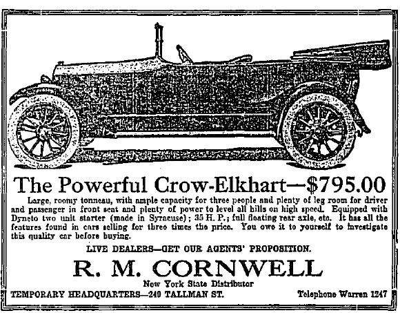 A 1917 Crow-Elkhart Advertisement